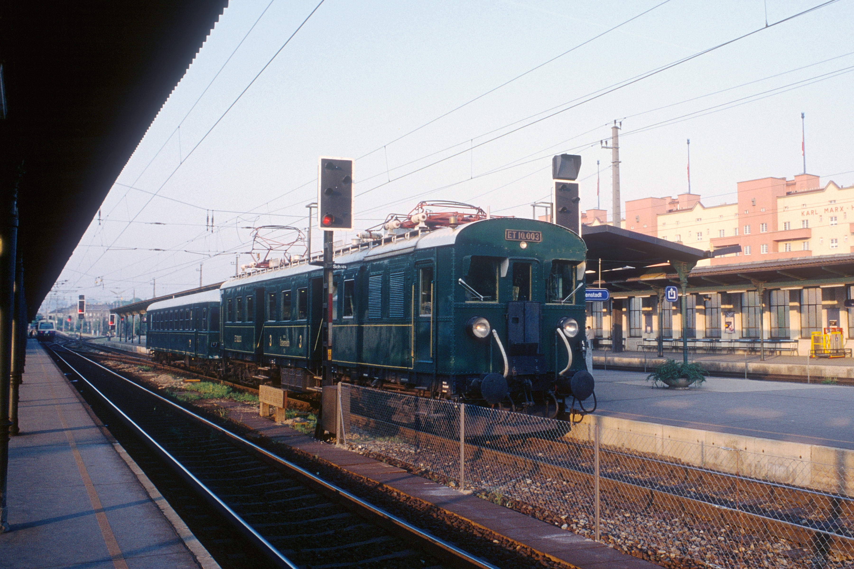 Preserved electric railcar ET 10.003 (ÖBB 4041.03) at Wien Heiligenstadt station.